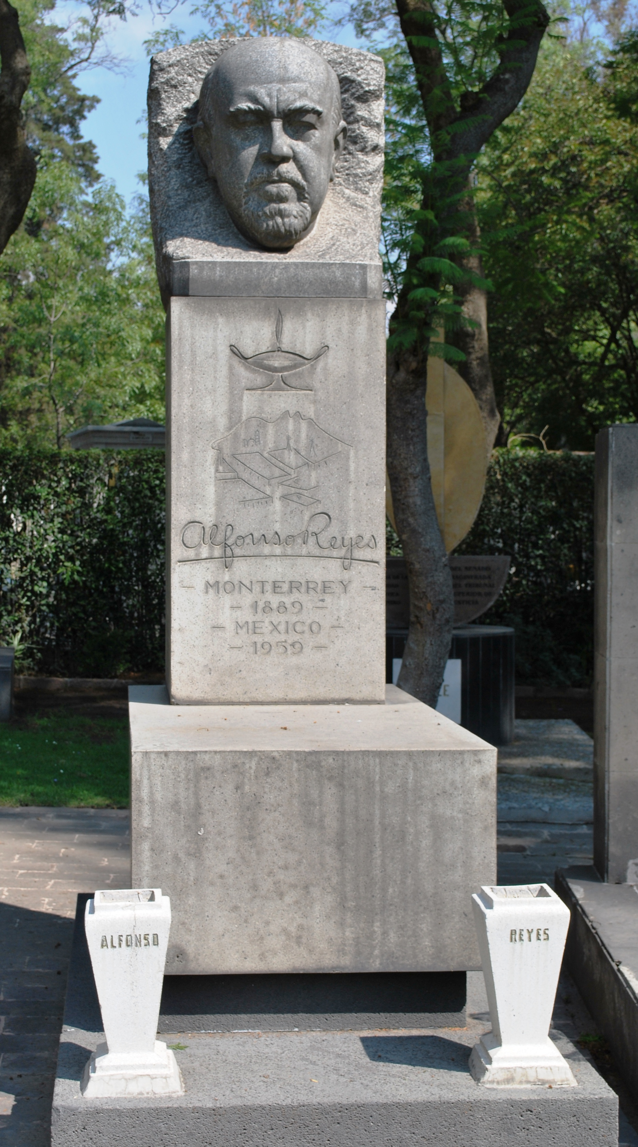 Tomb of Alfonso Reyes in the Panteon Civil de Dolores cemetery in Mexico City, sculpted by Ernesto Tamariz.